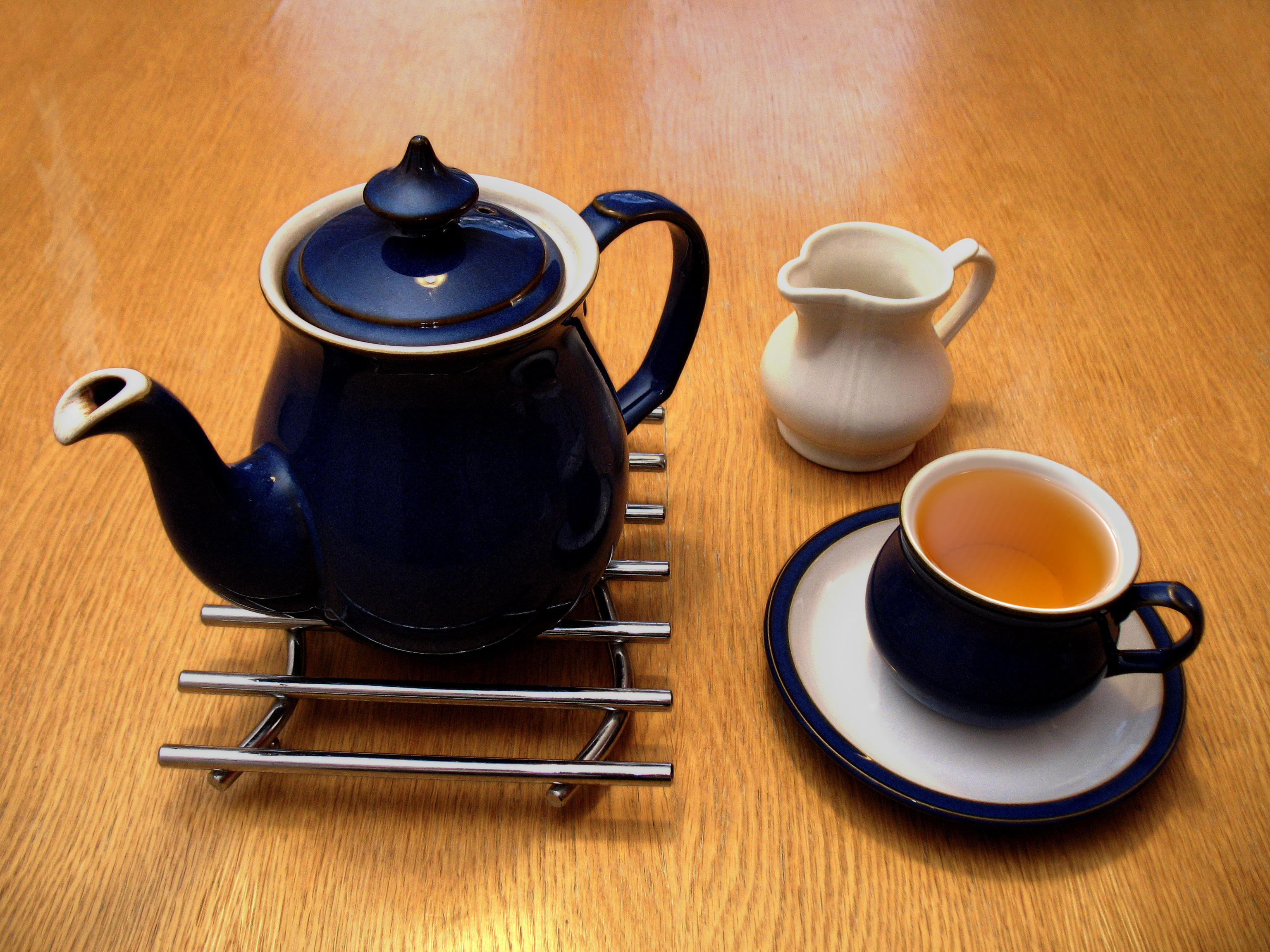 A nice cup of tea (and a sit down). A Denby teapot and cup with milk jug. Darjeeling tea, first flush 2007, Risheehat Estate, SFTGFOP1 CH/FL